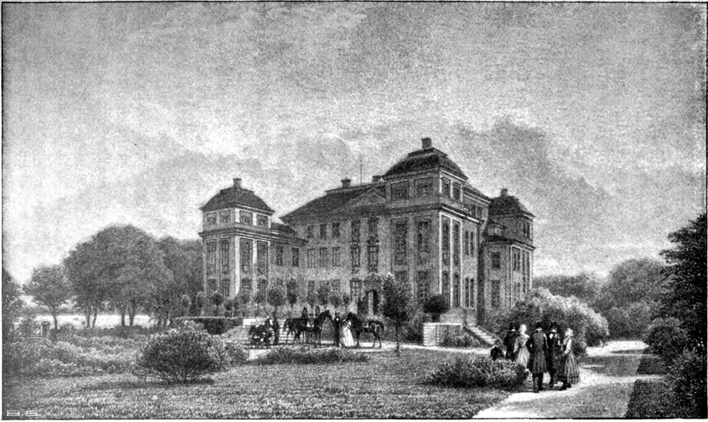 "Eriksberg" after a drawing by Ferdinand Richardt. Illustration from Nils Holgerssons underbara resa genom Sverige by Selma Lagerlöf.